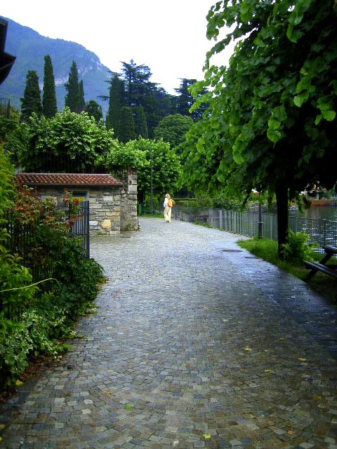 The Como lakeshore of the italian municipality Lierna, via al Porto